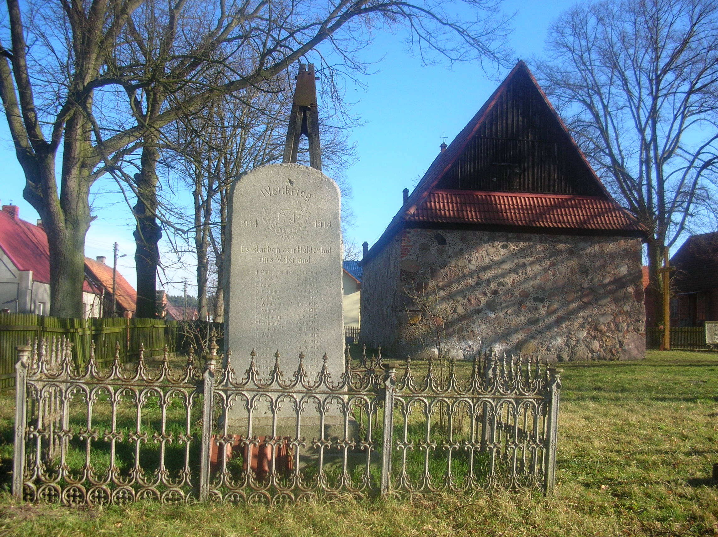 A monument commemorating the villagers killed during World War I in churchyard in Mielenko Gryfińskie near Gryfino